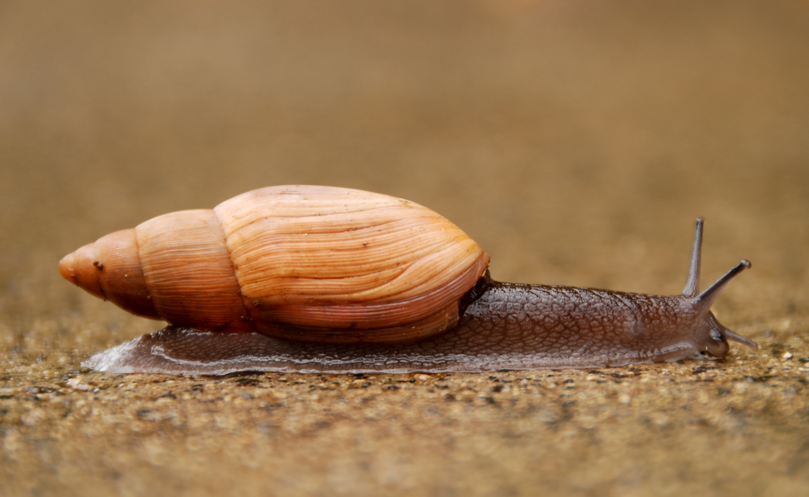 Euglandina rosea from Kauai, Hawaii. (Determination note: It looks like Euglandina rosea and there lives only one species of Euglandina in Hawaii. --User:Snek01.)